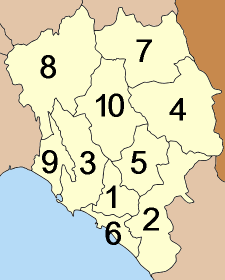 Map of Chanthaburi province, listing the districts (Amphoe) Mueang Chanthaburi Khlung Tha Mai Pong Nam Ron Makham Laem Sing Soi Dao Kaeng Hang Maeo Na Yai Am Khao Khitchakut (sub-district)